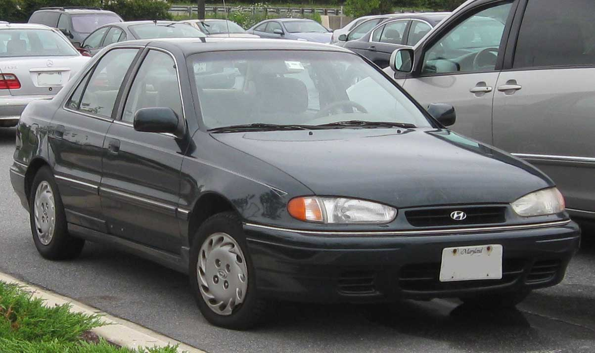 Hyundai Elantra photographed in Clinton, Maryland, USA.